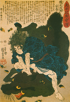 Horio Mosuke